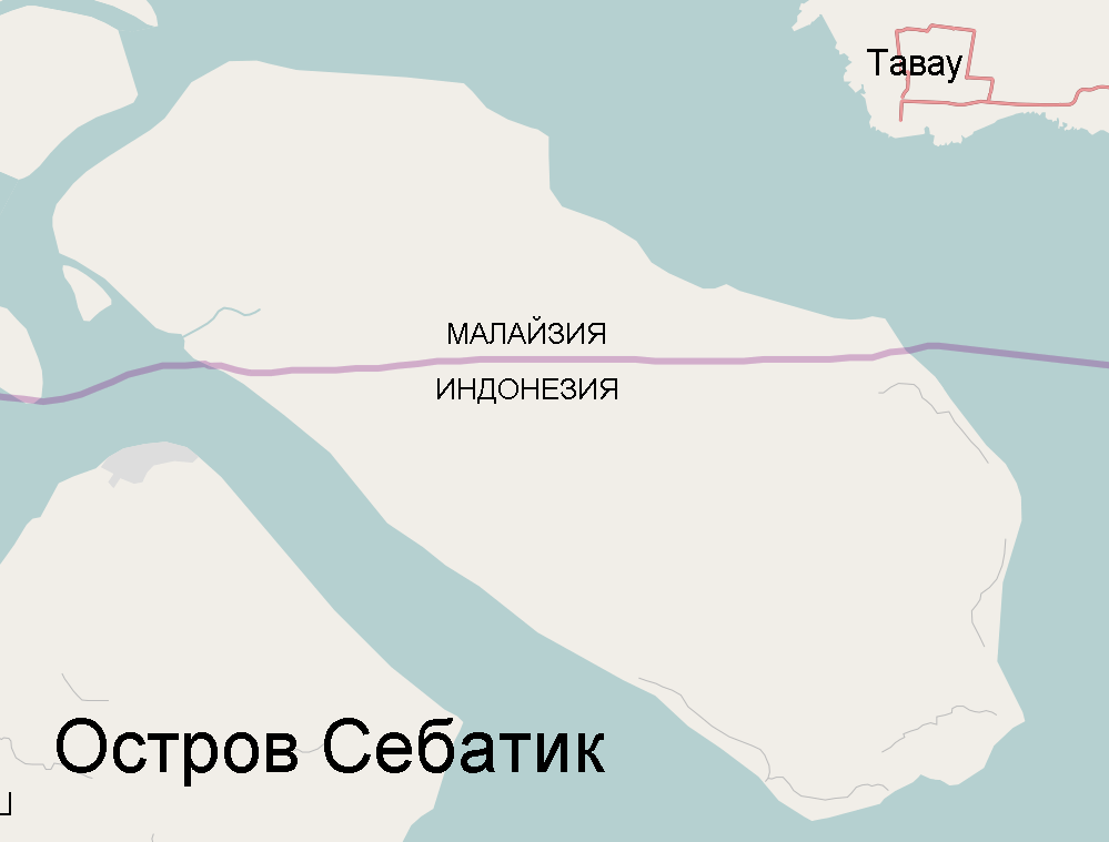 This map may be incomplete, and may contain errors. Don't rely solely on it for navigation.